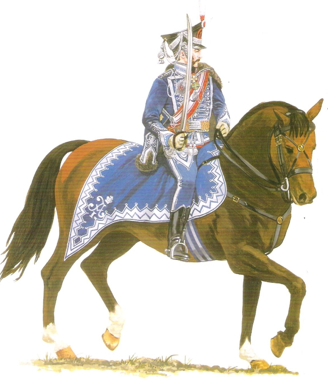 Uniform of Grodno (after - 6-th Lubensky) Husar Regiment. 1812